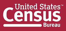 The logo of the United States Census Bureau, in use from 2011.